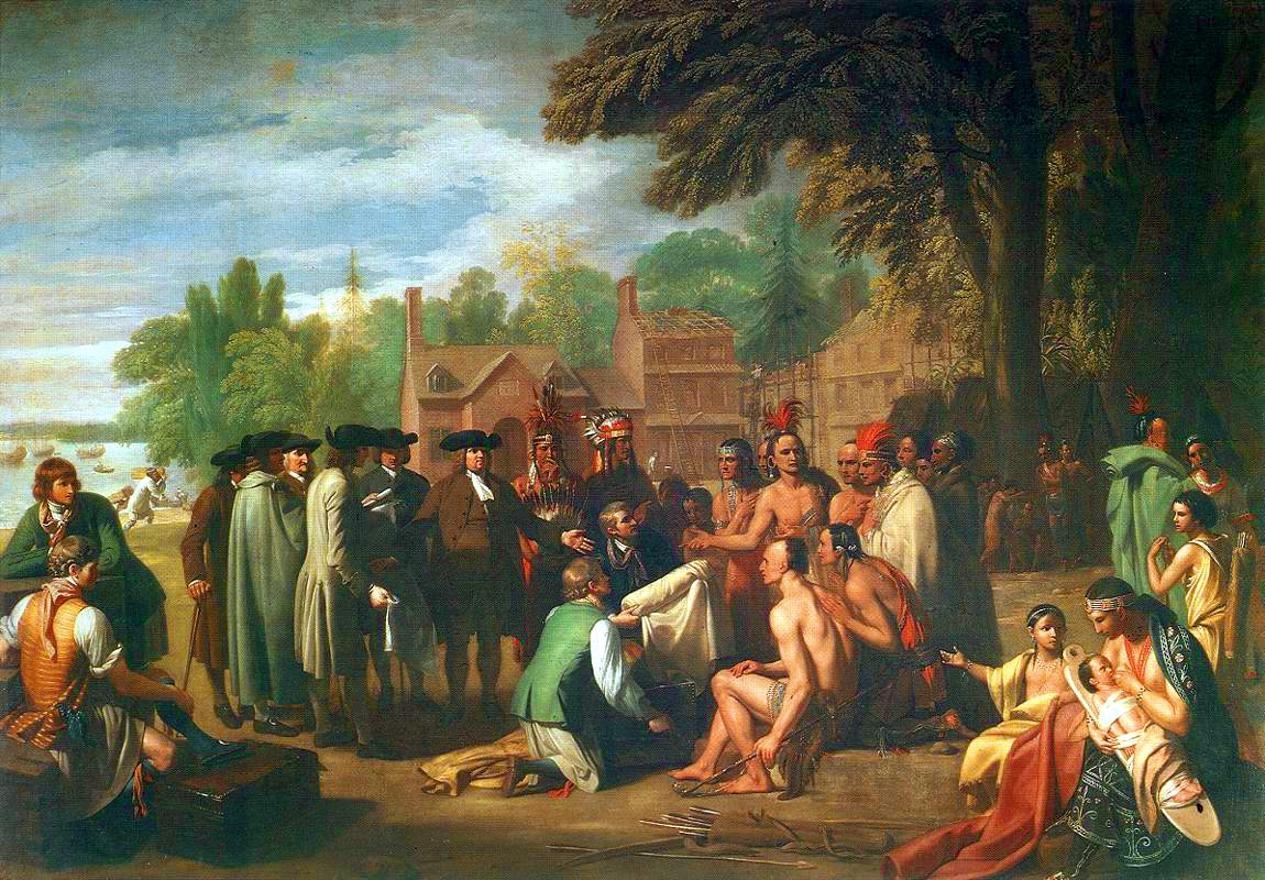 The Treaty of Penn with the Indians